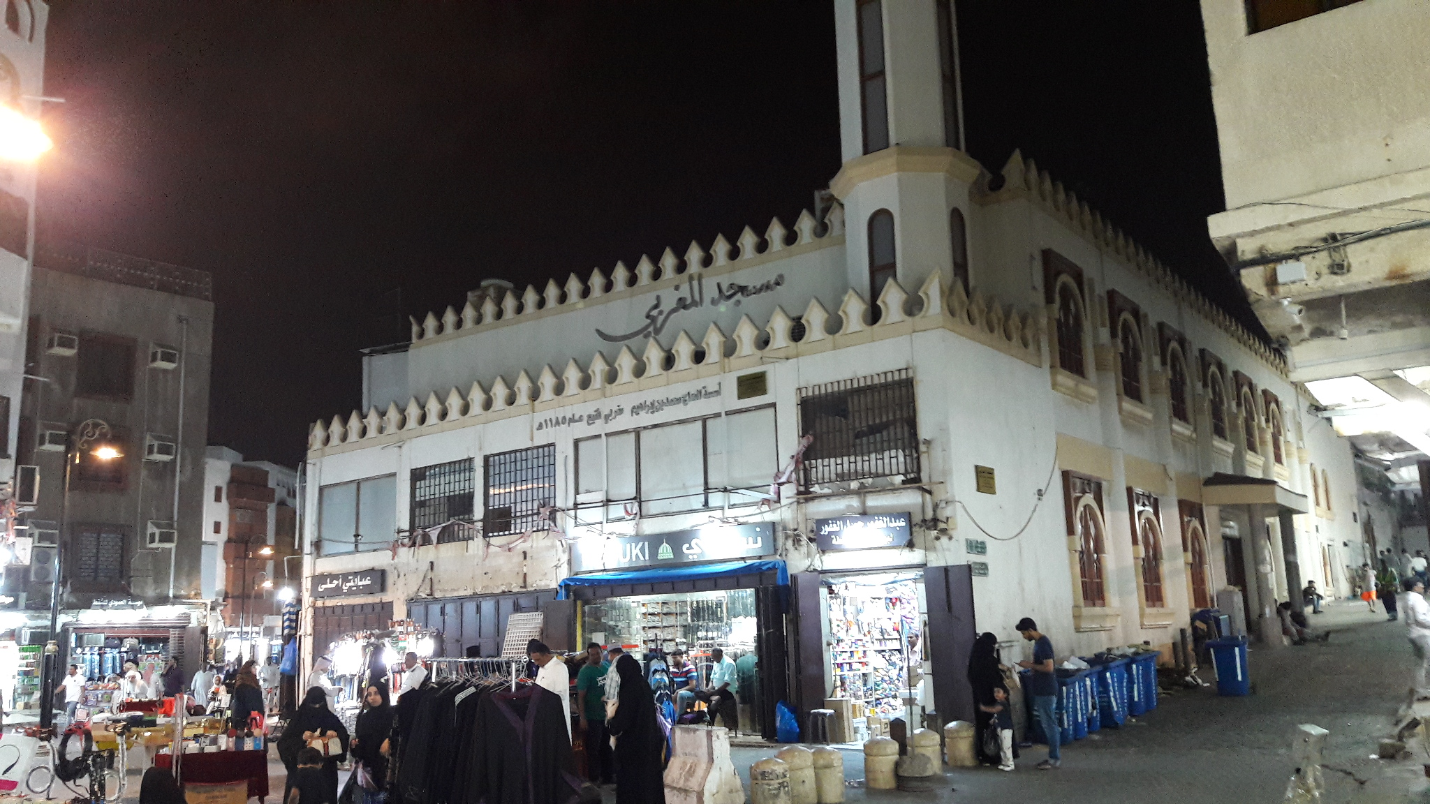 Al Maghrabi Mosque, Old Jeddah